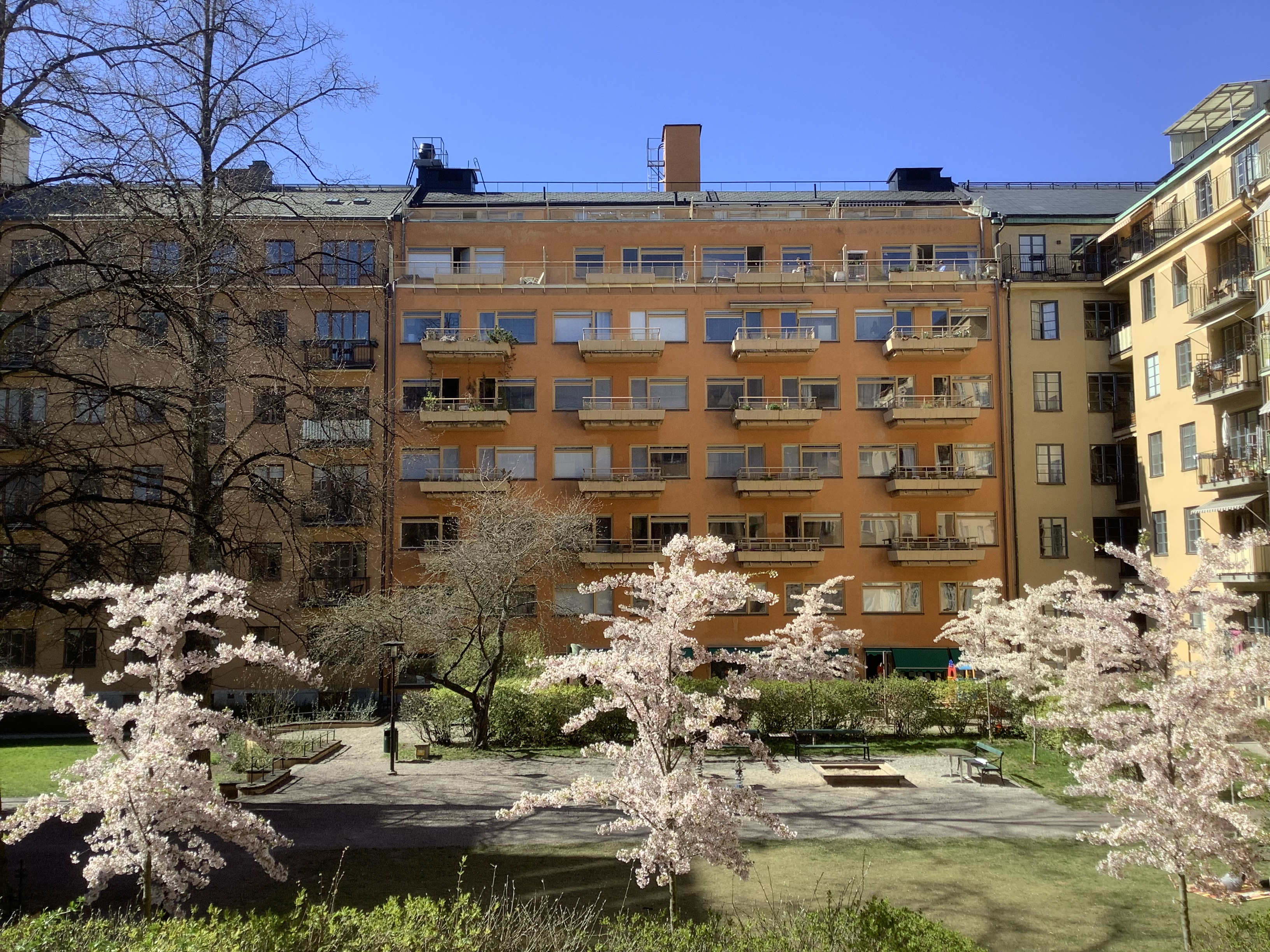 The backside of the Markeliushuset, facing Fågelbärsgården. Architectː Sven Markelius.